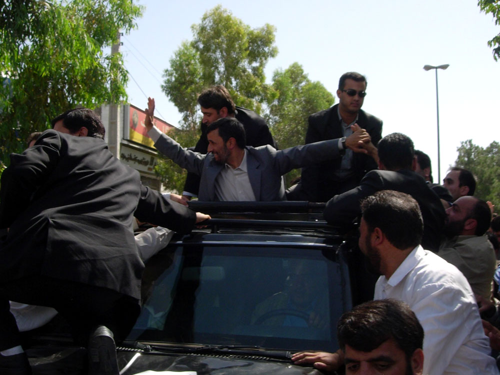 Mahmoud Ahmadinejad in Semnan - June 2007